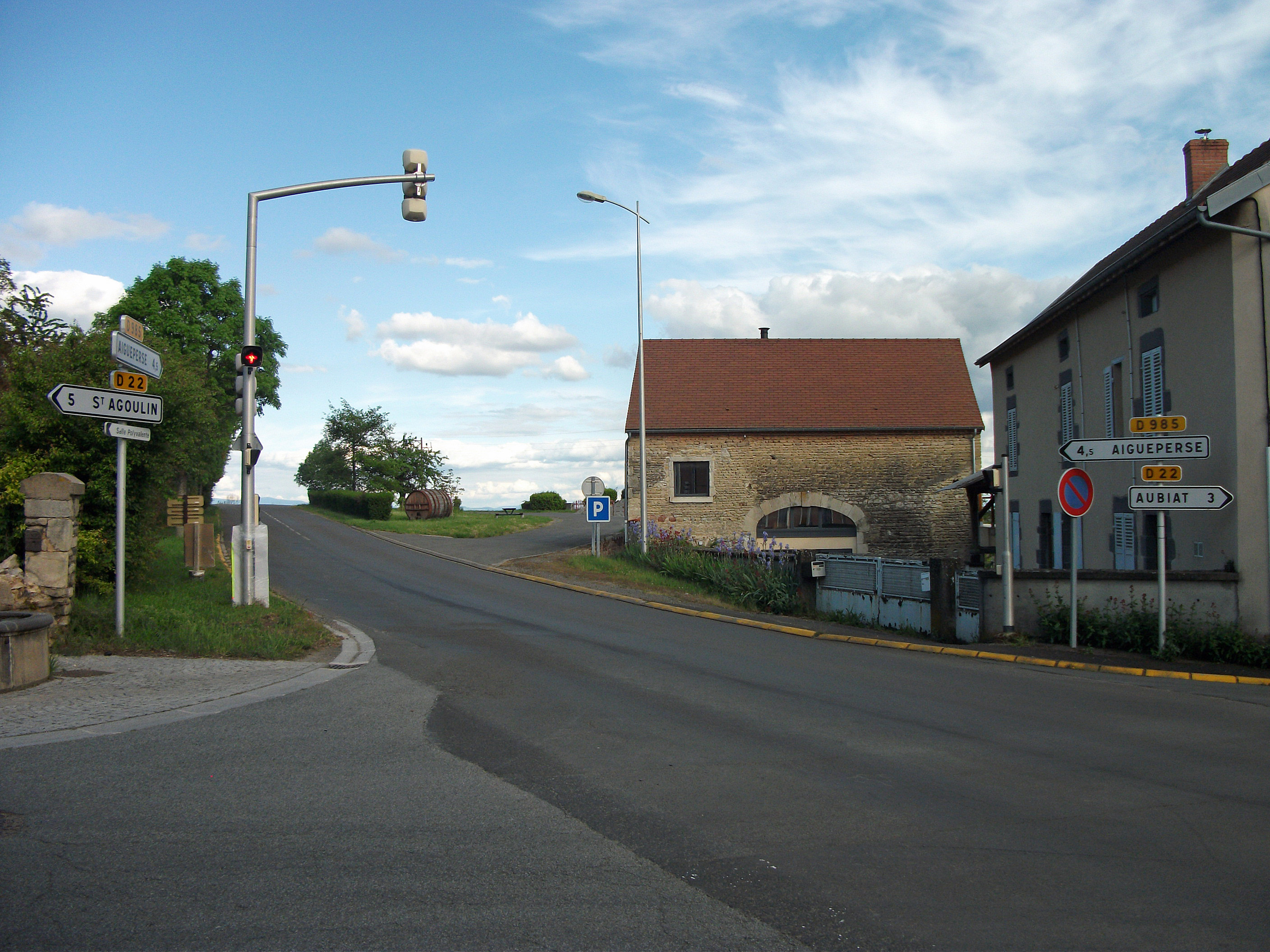 Departmental road 985 towards Aigueperse, in Artonne, Puy-de-Dôme, Auvergne-Rhône-Alpes, France [10882]